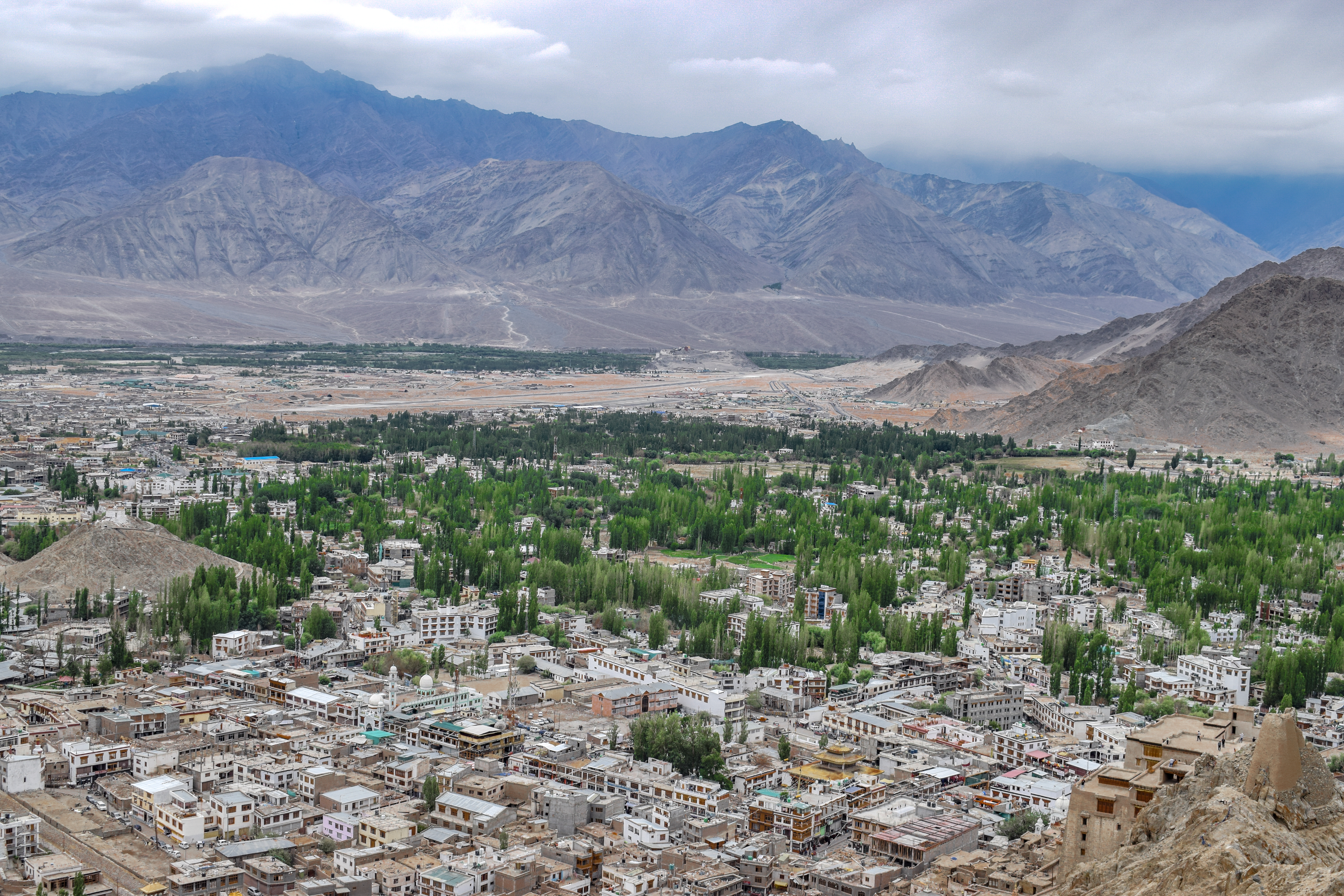 leh city view along with leh palace a right hand side.